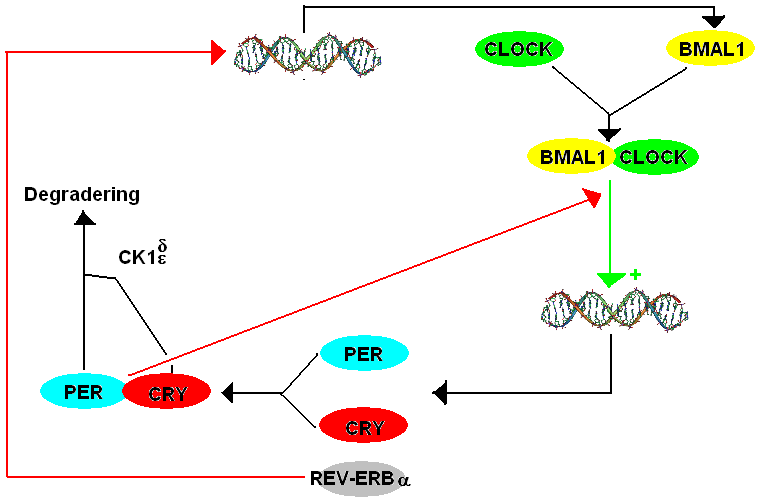 The core loops of the circadian clock of mammals. PER=Period, CRY=Cryptochrome, BMAL1=Brain and Muscle ARNT-like 1 CK1d/e=Casein kinase 1 delta/epsilon. red arrows indicate inhibition and green ones indicate stimulation. The DNA molecule is by Michael Ströck and licensed under GFDL at Commons (DNA Overview.PNG).